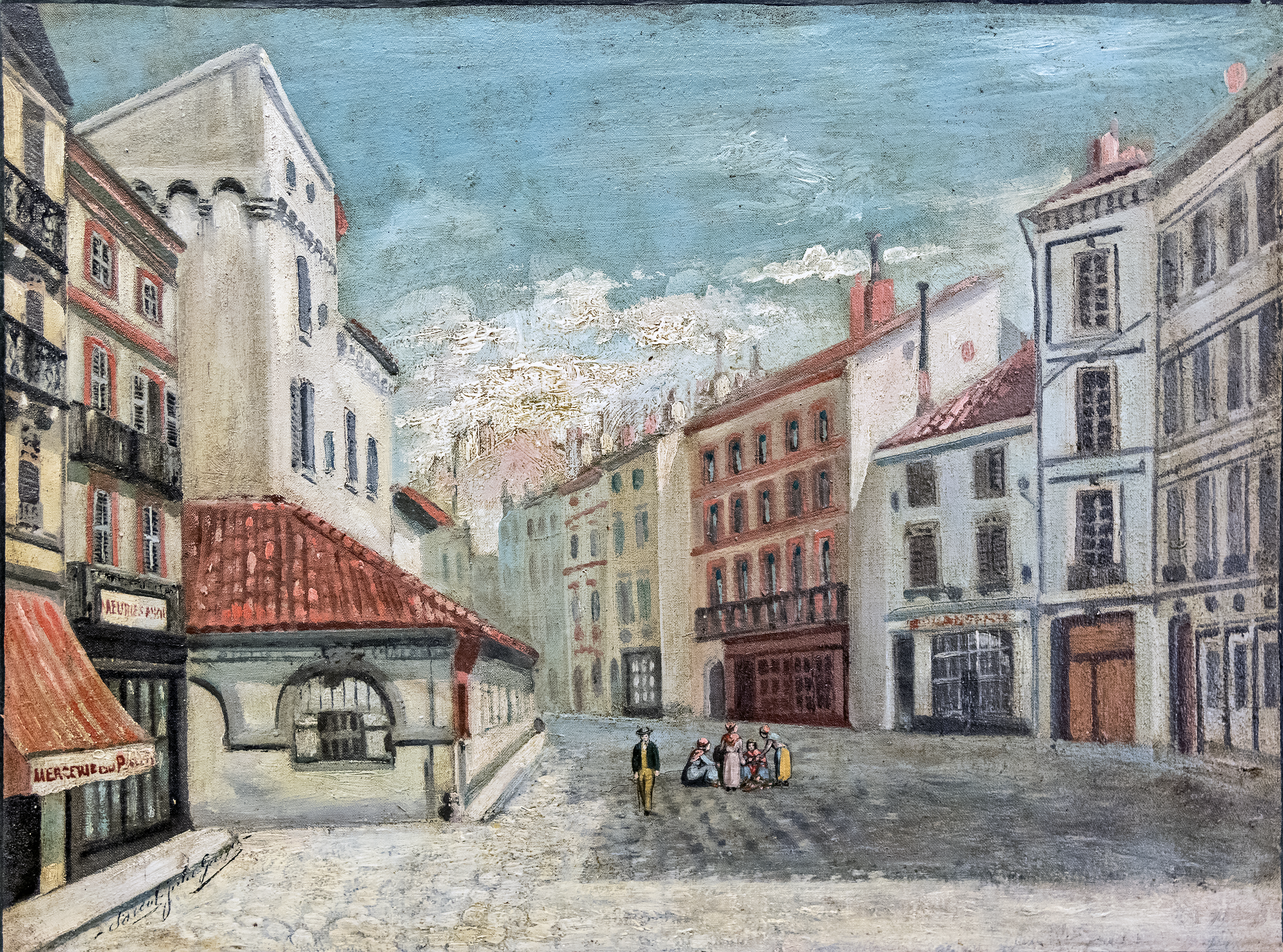 The old perception of Salin on the Place du Salin, today transformed into a Protestant temple.